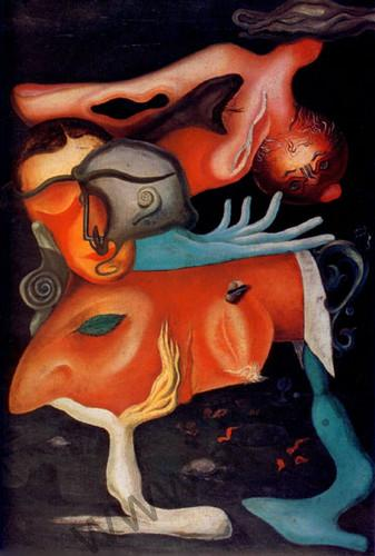 Radojica Živanović Noe (1903-1944): Apparitionin the smoke (1932) oil on canvas, 65x46,5 cm (owner: Museum of Contemporary Art , Belgrade)